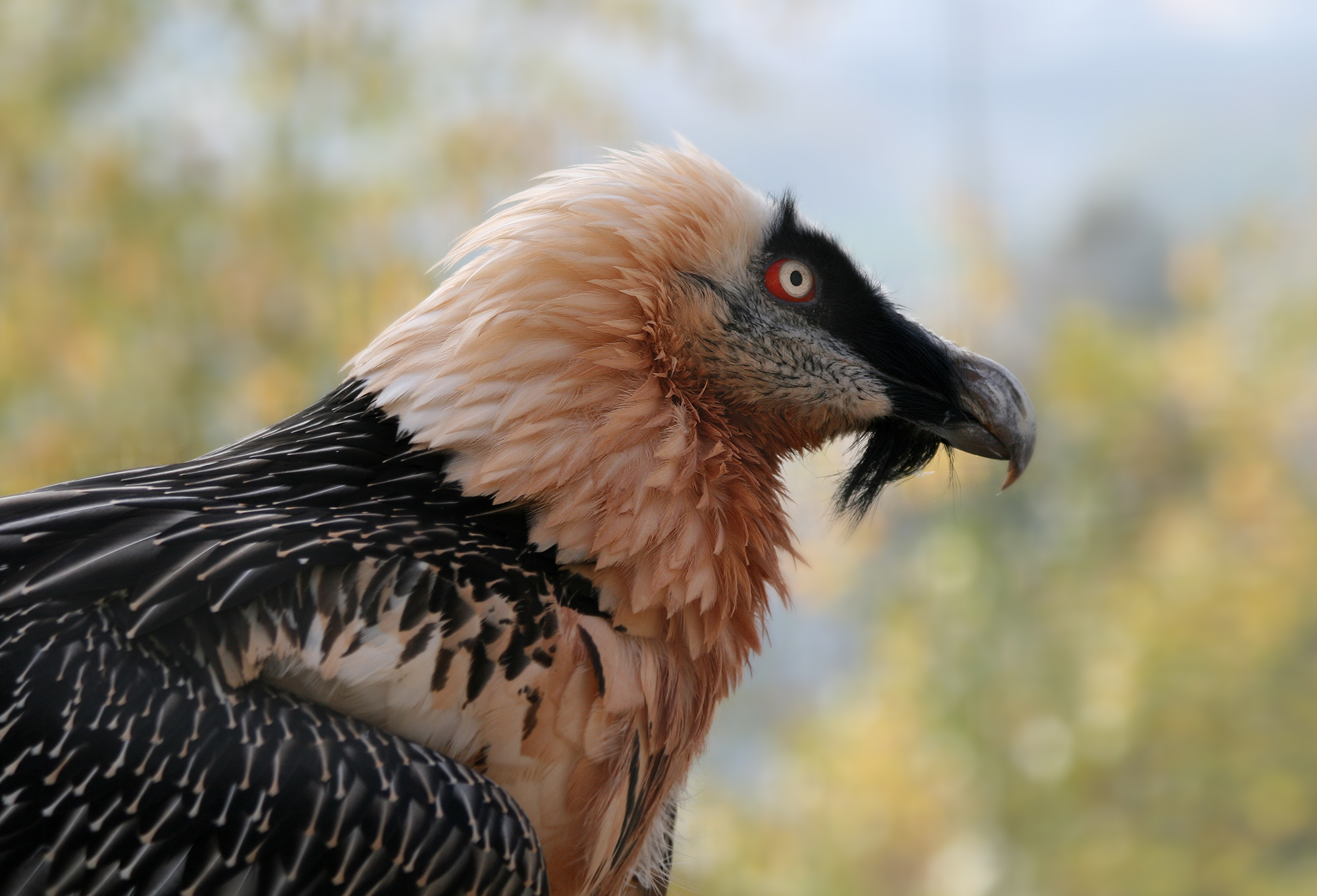 Description: The Lammergeier or Bearded Vulture, Gypaetus barbatus ("Bearded Vulture-Eagle"), is an Old World vulture, the only member of the genus Gypaetus.